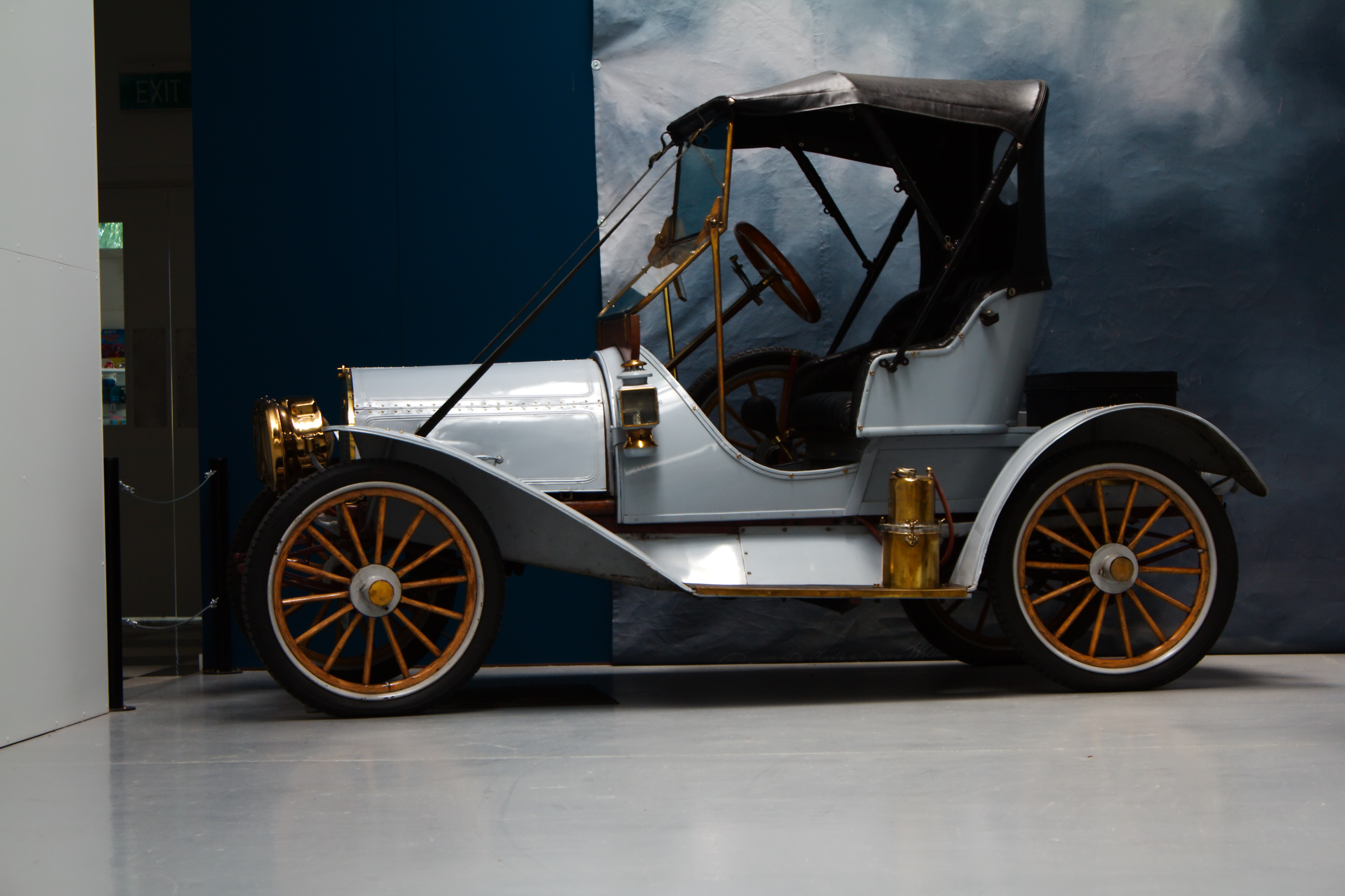 1910 Metz roadster, two cylinder, 10hp, Air-cooled engine. Friction drive transmission, oil-filled brakes Wanaka New Zealand